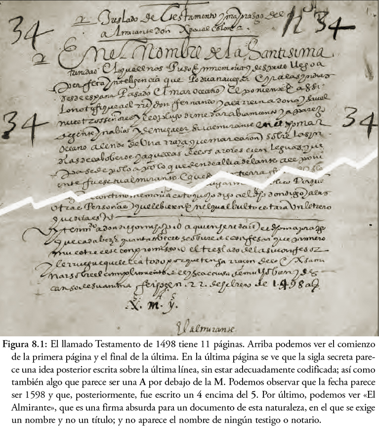 Columbus Last Will "mayorazgo" of 1498 showing that it was never written by Columbus and that the date was originally 1598 not 1498.